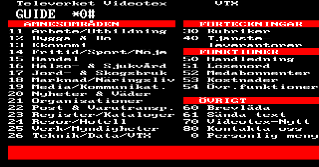 Swedish Videotex start page